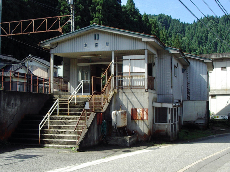 Hongū Station on the Toyama Chiho Railway Tateyama Line in the city of Toyama, Toyama Prefecture, Japan